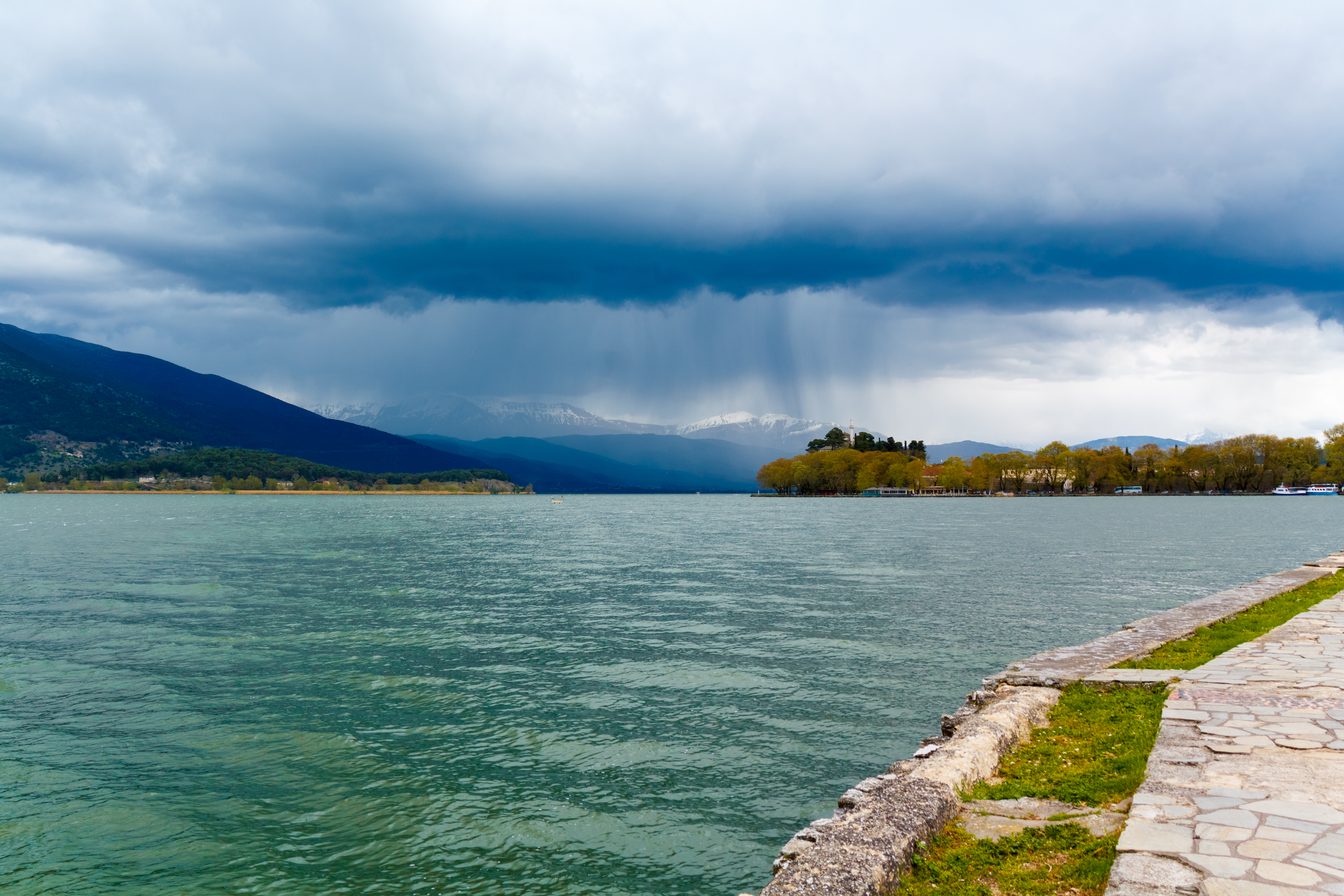 Pamvotida Lake, Ioannina, 2019